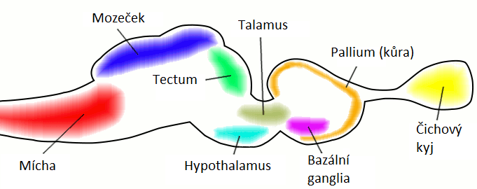 Sketch showing several key regions of the vertebrate brain, on the outline of the brain of a shark, one of the most "primitive" vertebrates. This picture was drawn by hand, using GIMP. The shaded regions should only be thought of as approximations.